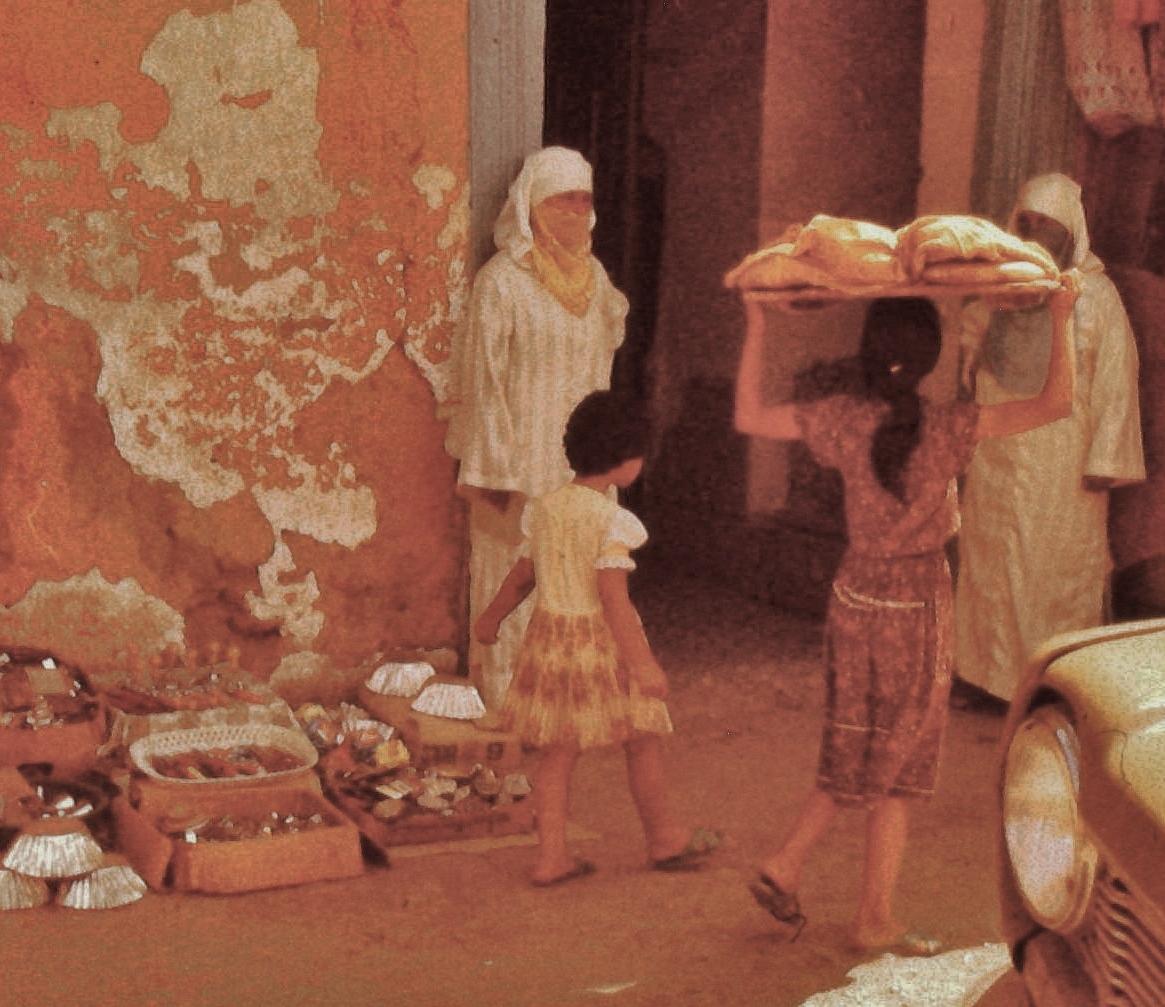 Moroccan street scene 1980